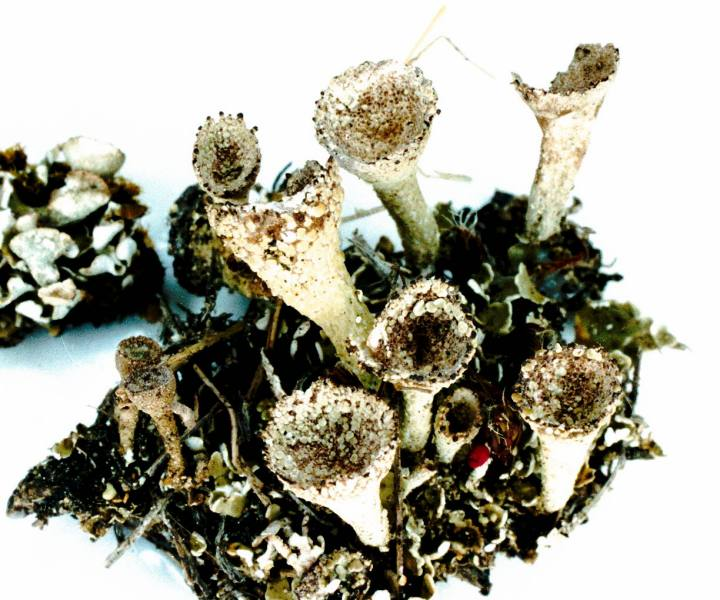 Cladonia pyxidata (L.) Hoffm., 1796 Photograph of a herbarium specimen. Cladonia pyxidata was growing on soil at Milbridge Cemetery along Route 1A in Milbridge, Washington County, Maine, USA (Lat. 44o31.353' N, Long. 67o53.787' W) Collected and identified by E.C. Uebel (No. U-133, 12 Jun 2001)